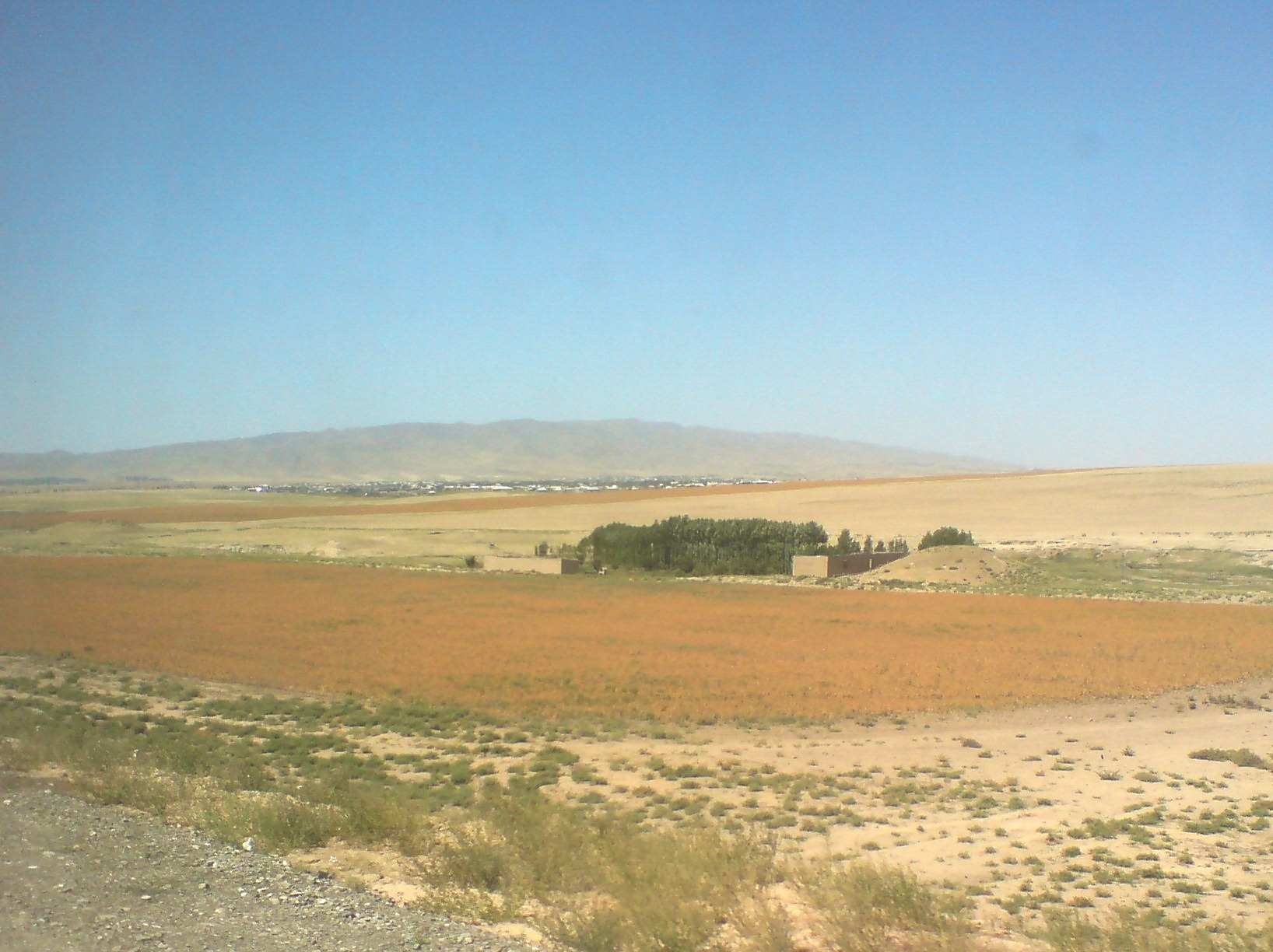 Gobduntau mountains, east side. Uzbekistan, near Bogarnaya railway station